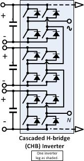 Simplified cascaded H-bridge inverter topology. Adapted from part of slide 35 of Paes, Richard (June 2011). "An Overview of Medium Voltage AC Adjustable Speed Drives . . ." & b) Fig. 1.3-2, p. 9 of Wu, Bin (2006) "High-power converters and AC drives